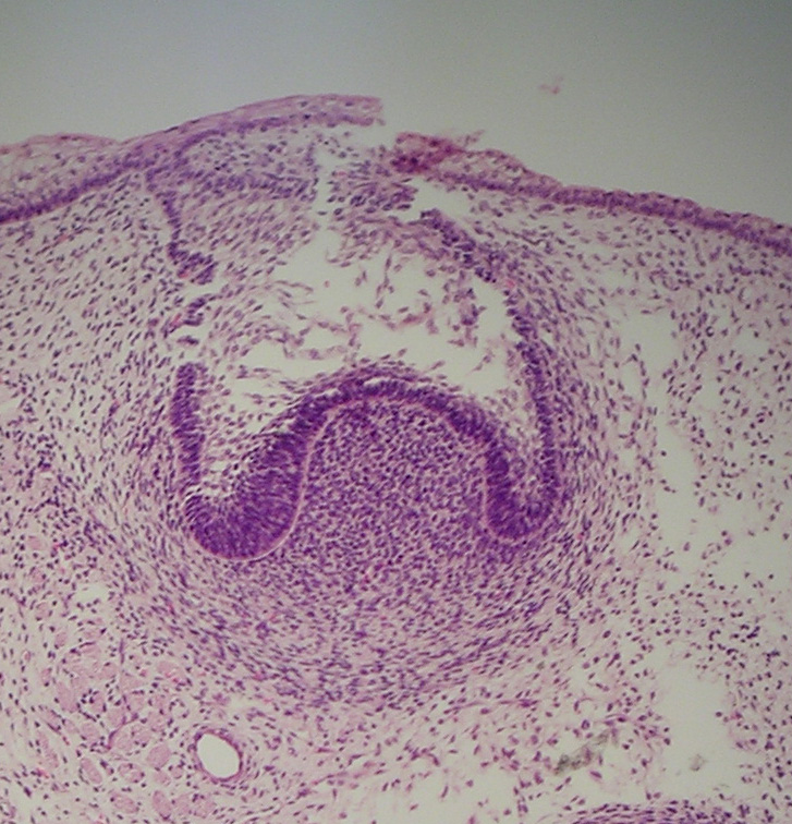 Histology of developing tooth with no labels. Tooth is in cap stage. Photo taken by Dozenist.